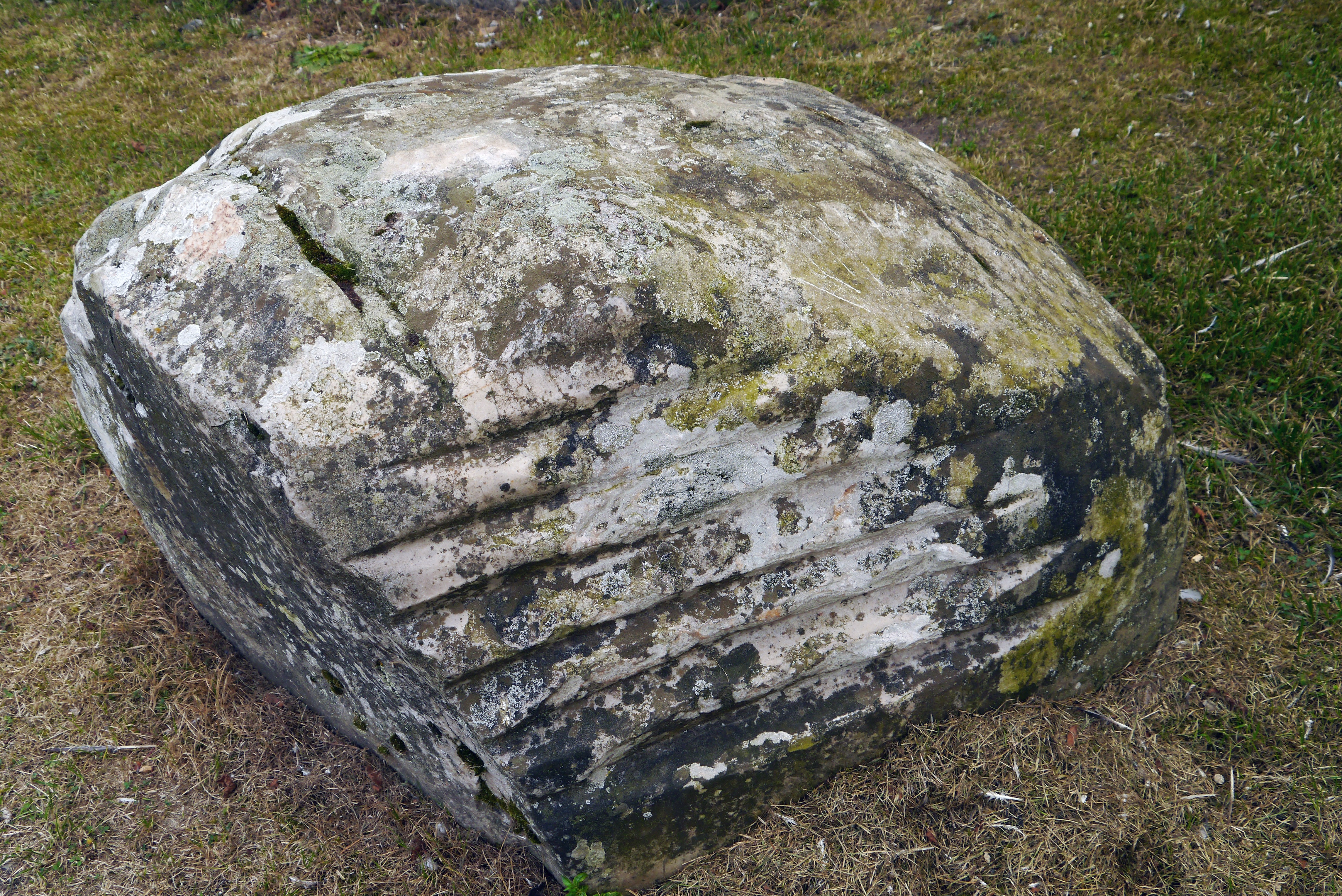 Buno-Bonnevaux, Essonne, France. Polissoir des Sept coups d'épée, next to the church.